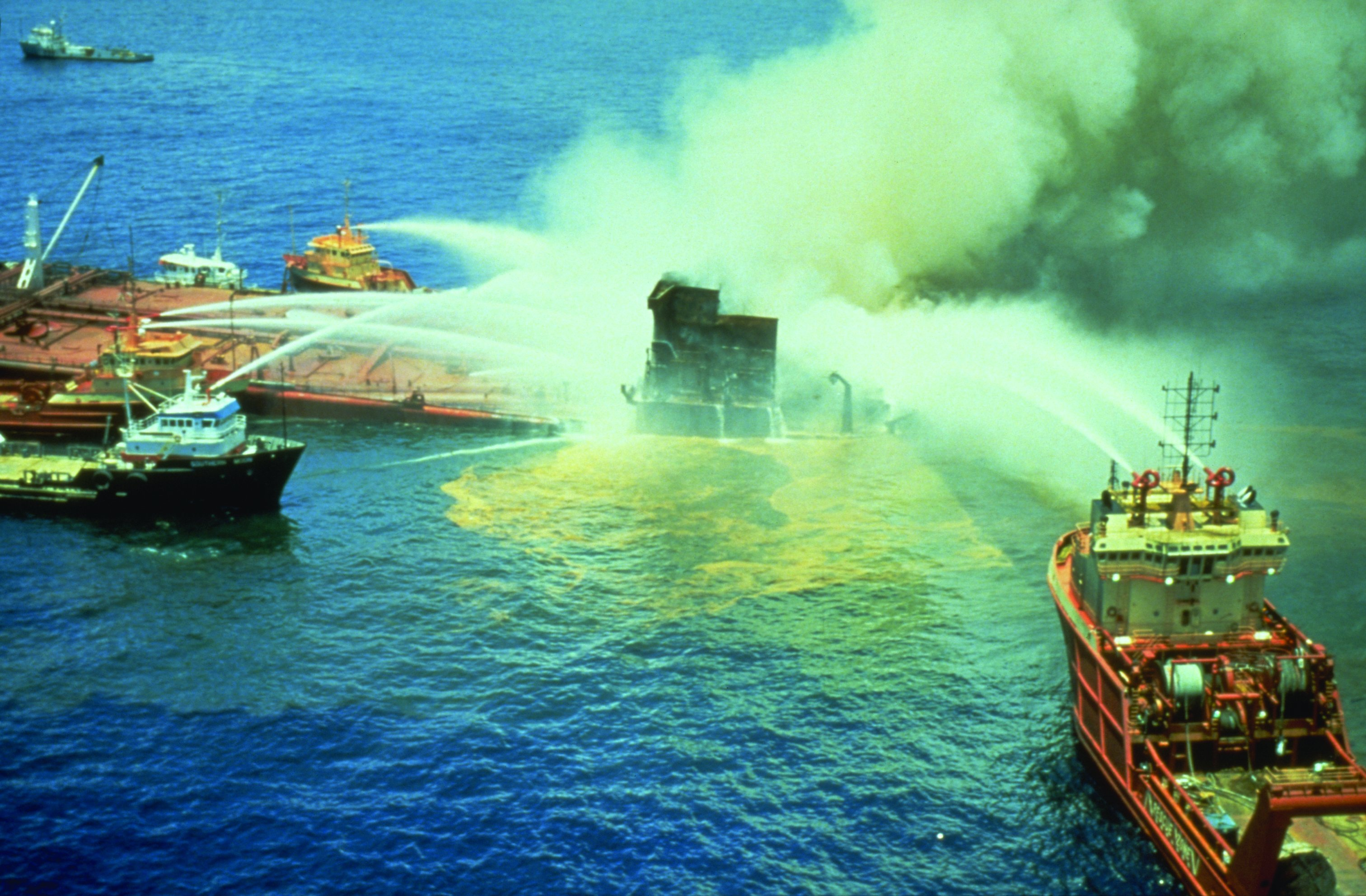 Ixtoc I oil spill. This spill was caused by a blownout oil well. The well ran wild for 9 months and spilled over 140 million gallons of oil into the Bay of Campeche. Mexico, Bay of Campeche.